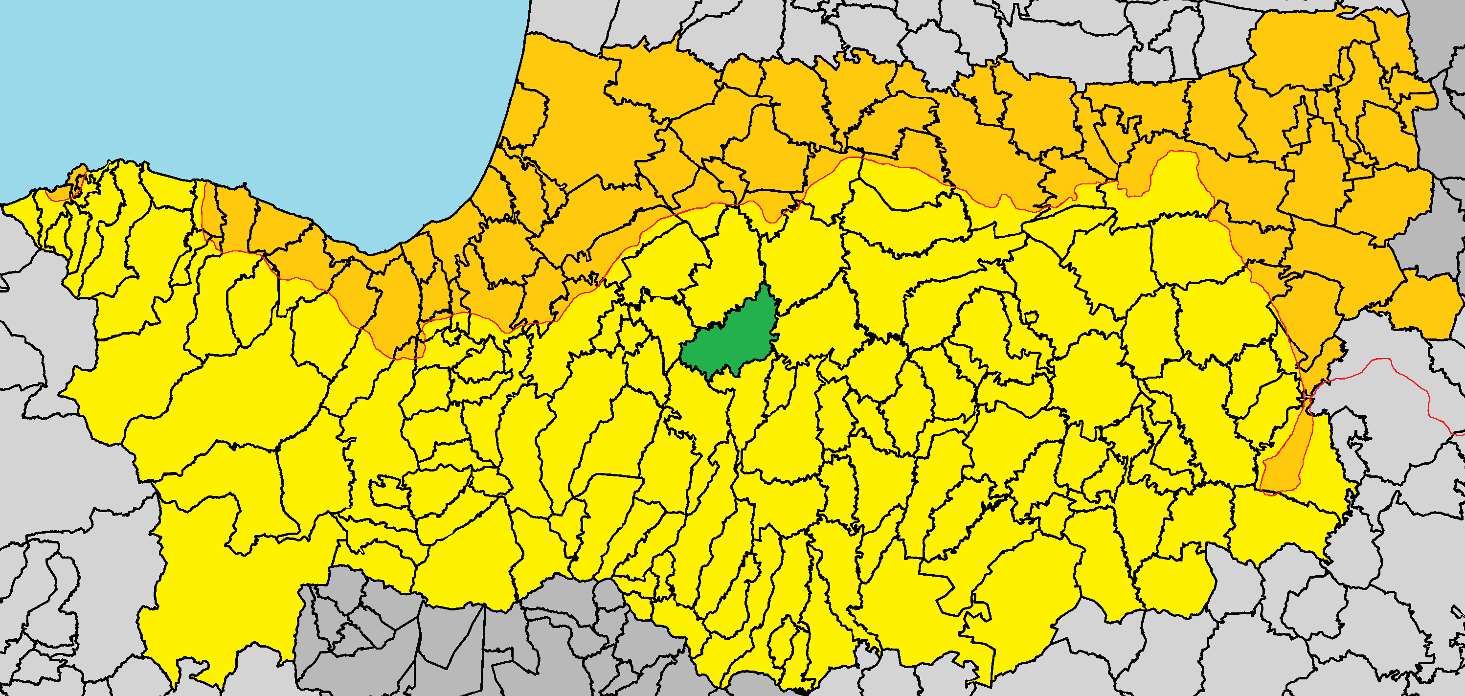 Orounta in Nicosia District.